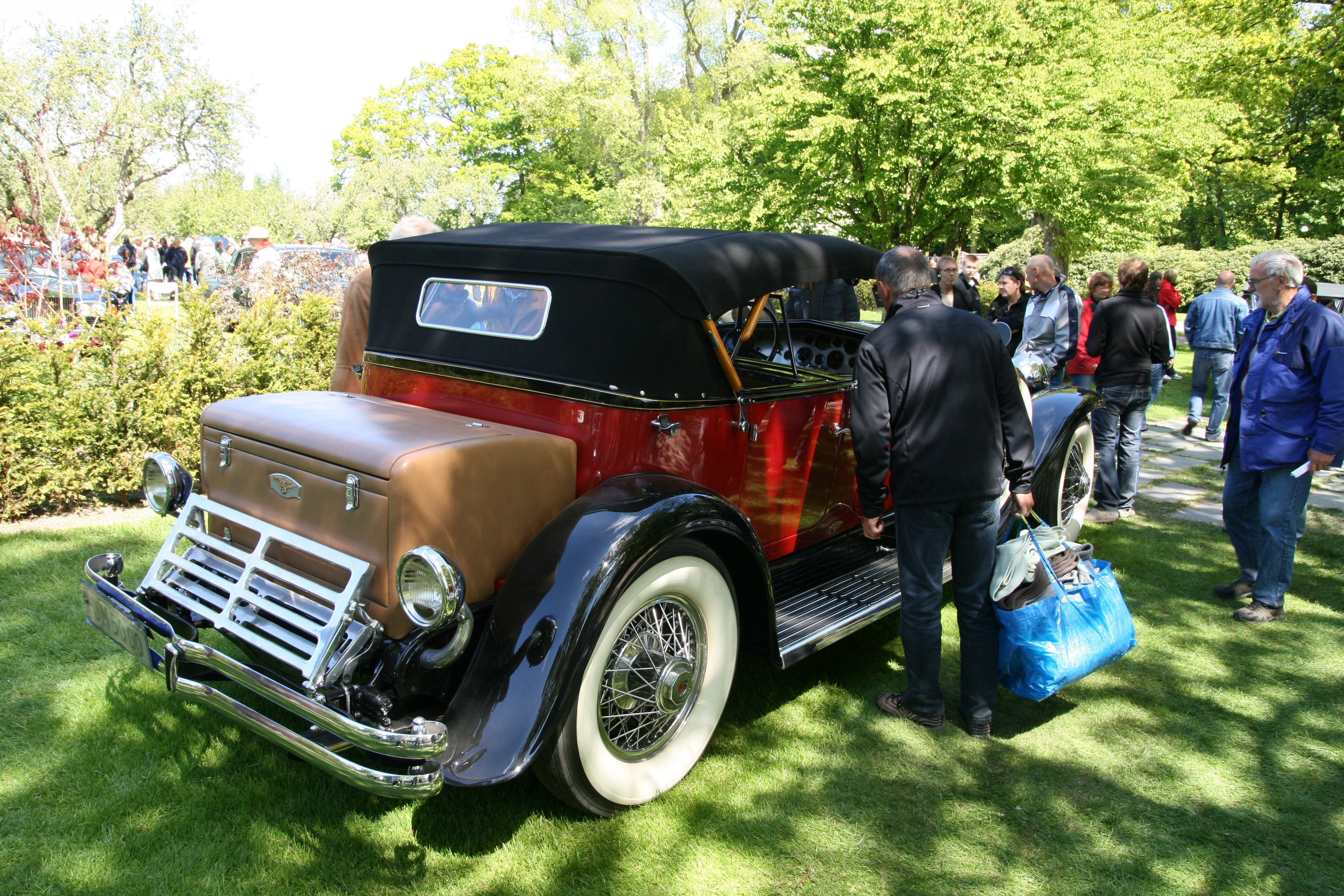 Rear right view of a 1933 Duesenberg Model J Derham Tourster parked at the Sofiero Classic car show at Sofiero castle in Helsingborg, Sweden.